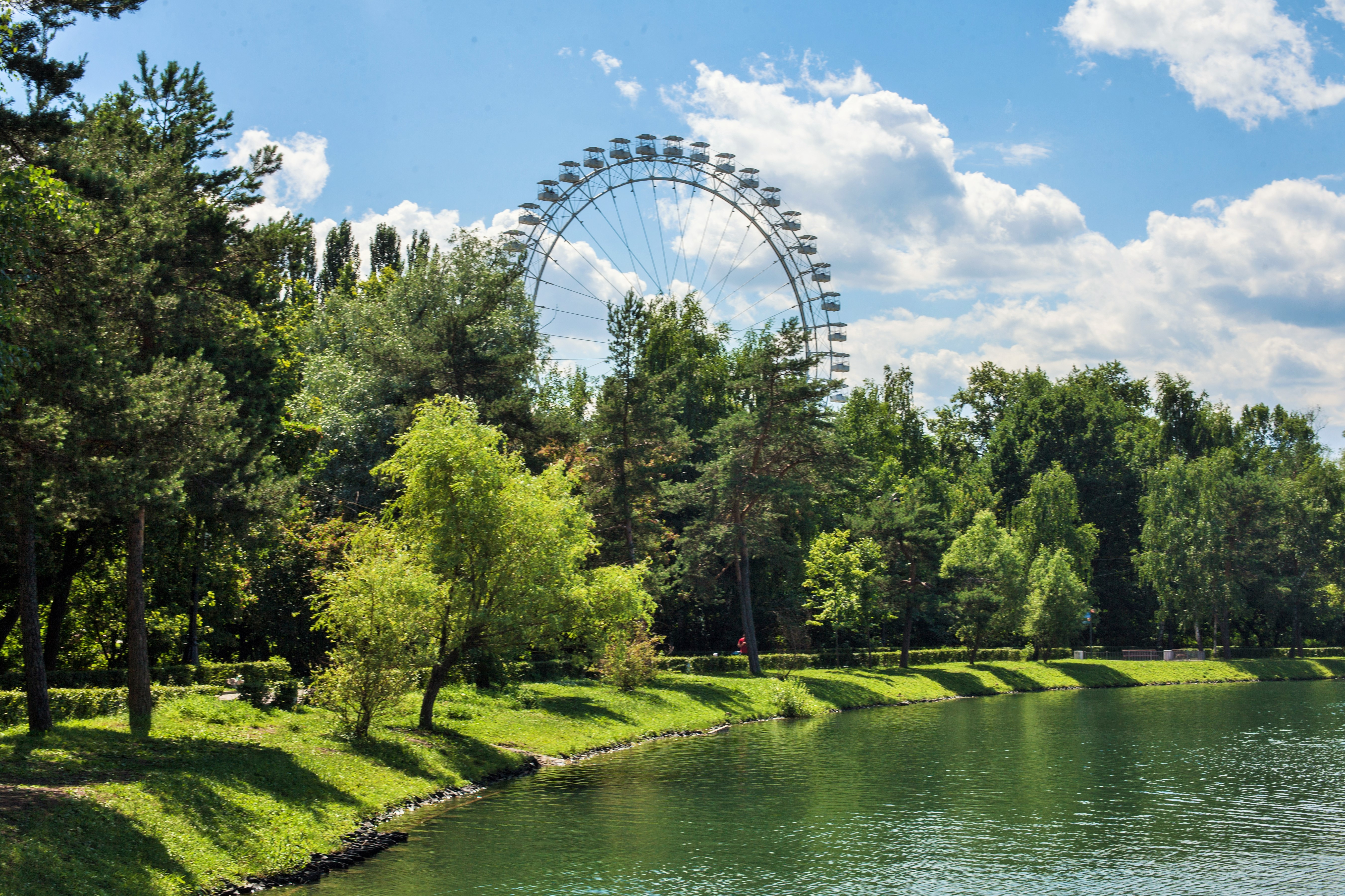 Izmailovsky park in Moscow